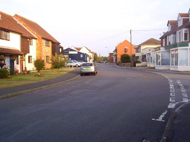 Calshot Road, Fawley. View from my front door looking down Calshot Road towards The Square in Fawley.